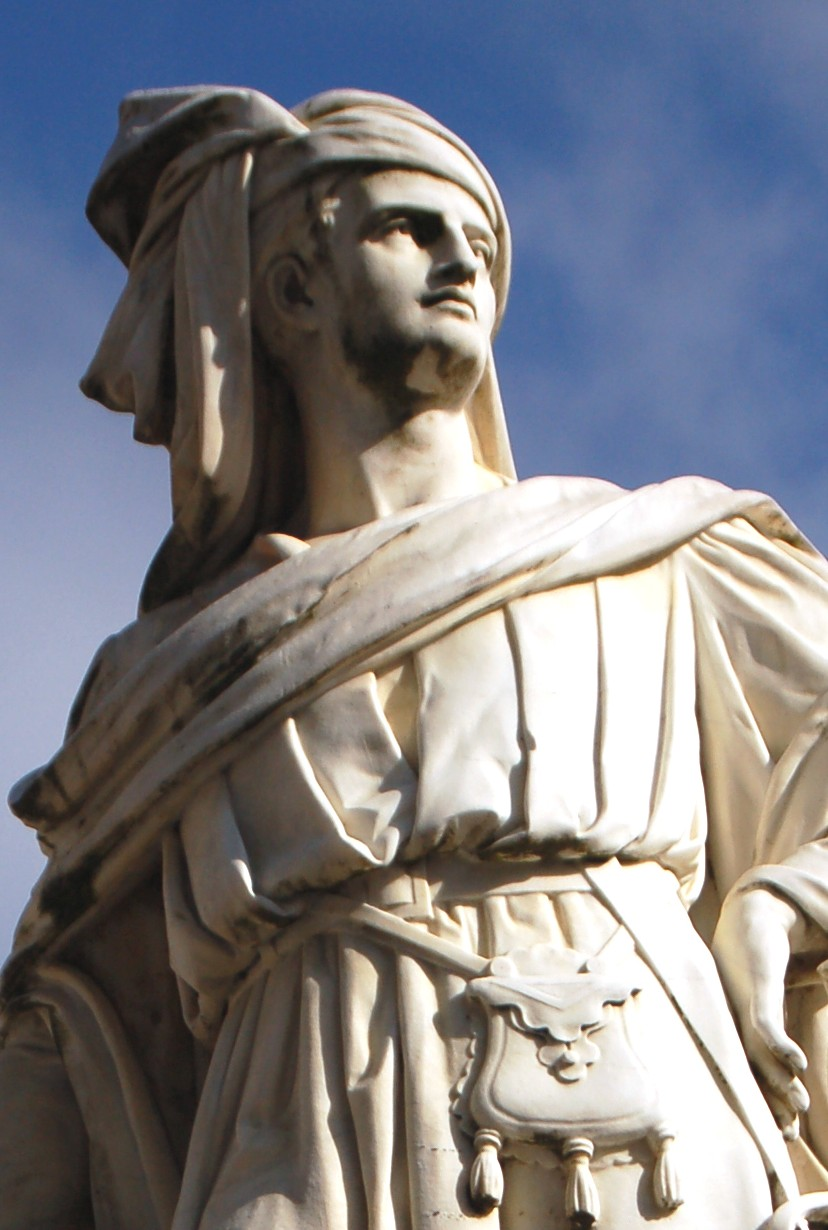 Statue of Jacques Cœur in Bourges (bust)